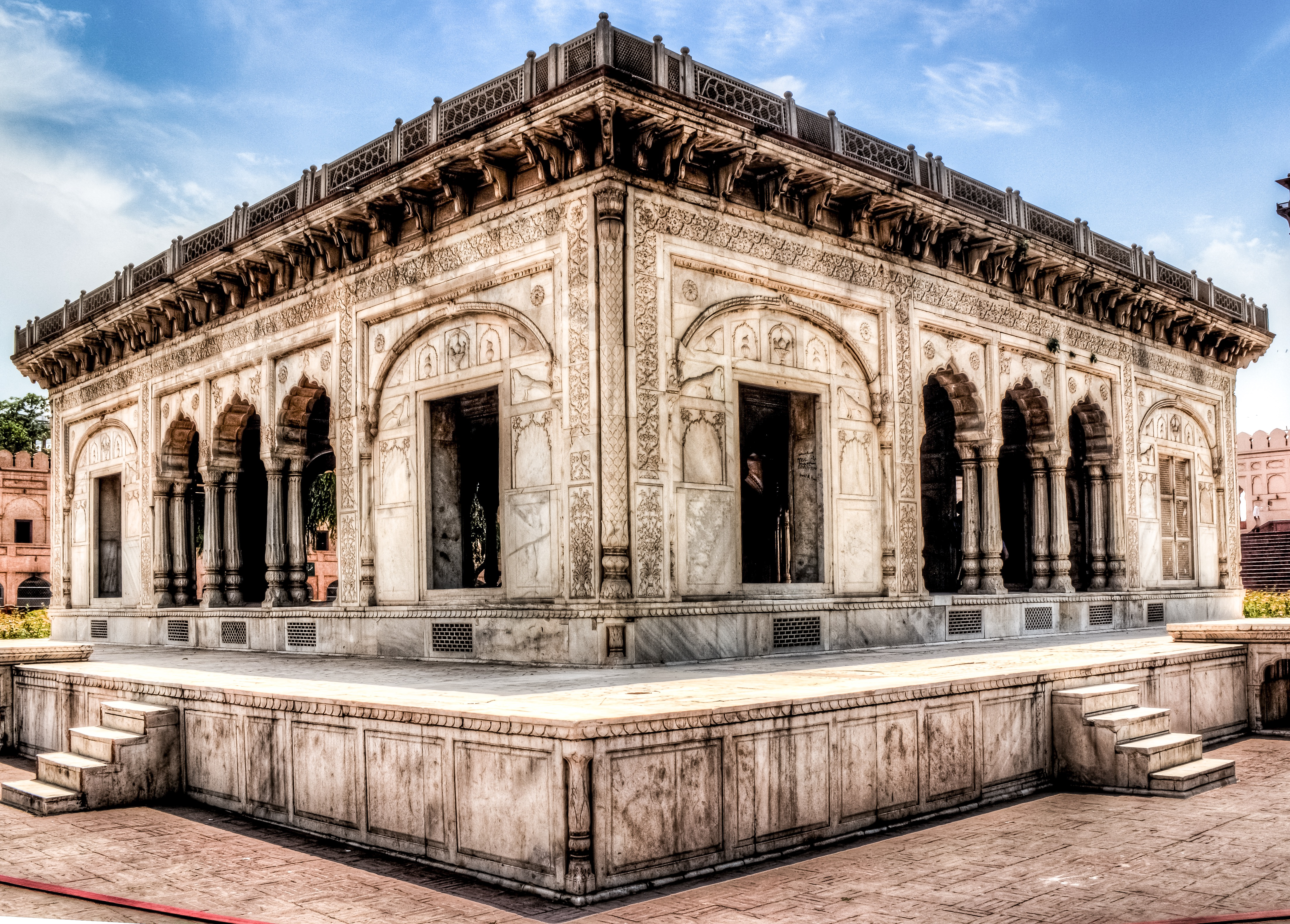 Hazuri Bagh Baradari This is a photo of a monument in Pakistan identified as the PB-61